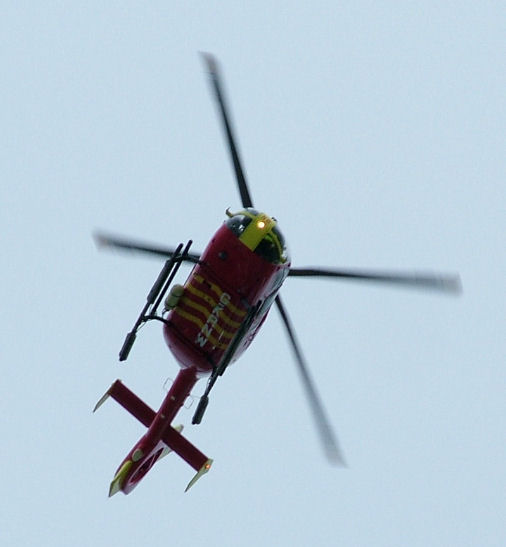 Cornwall air ambulance G-KRNW Eurocopter EC 135 overhead at Polzeath, Cornwall - 16 August 2008